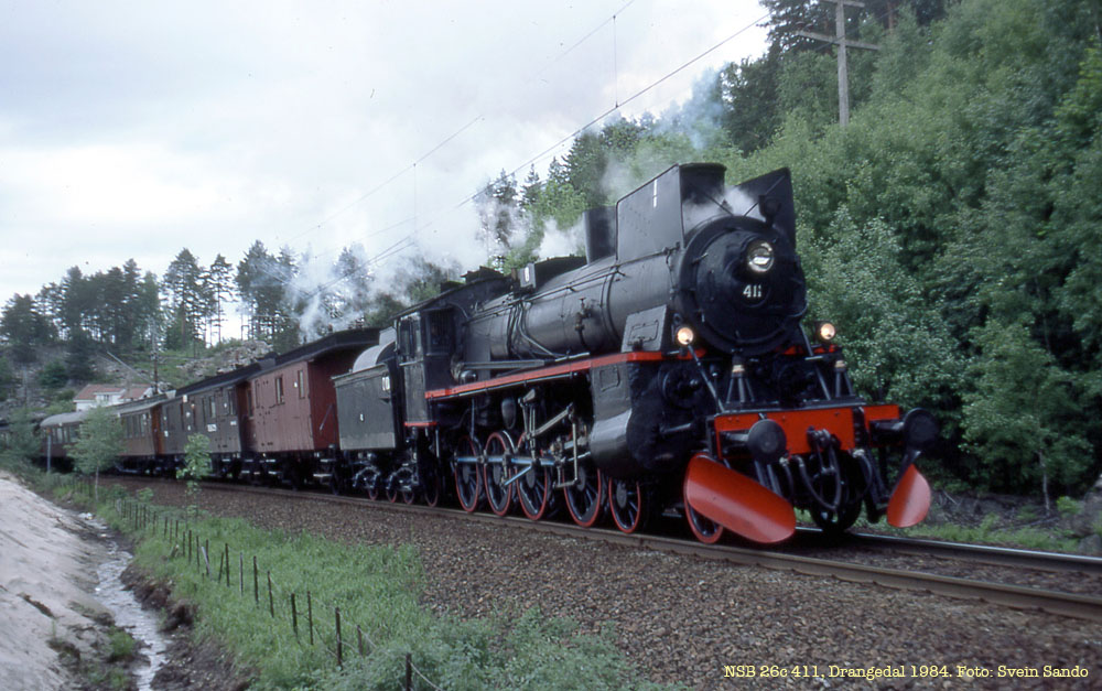 NSB class 26c, no.411, preserved by Norwegian Railwau Club. Vintage train near Drangedal in 1984.